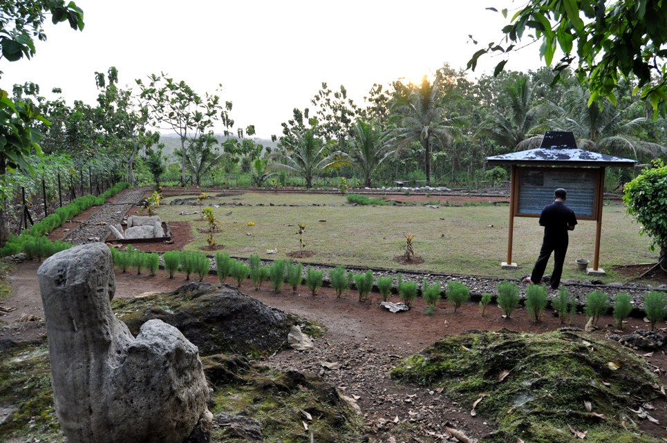 Situation of Sokoliman archeological site, Bejiharjo, Karangmojo, Gunungkidul